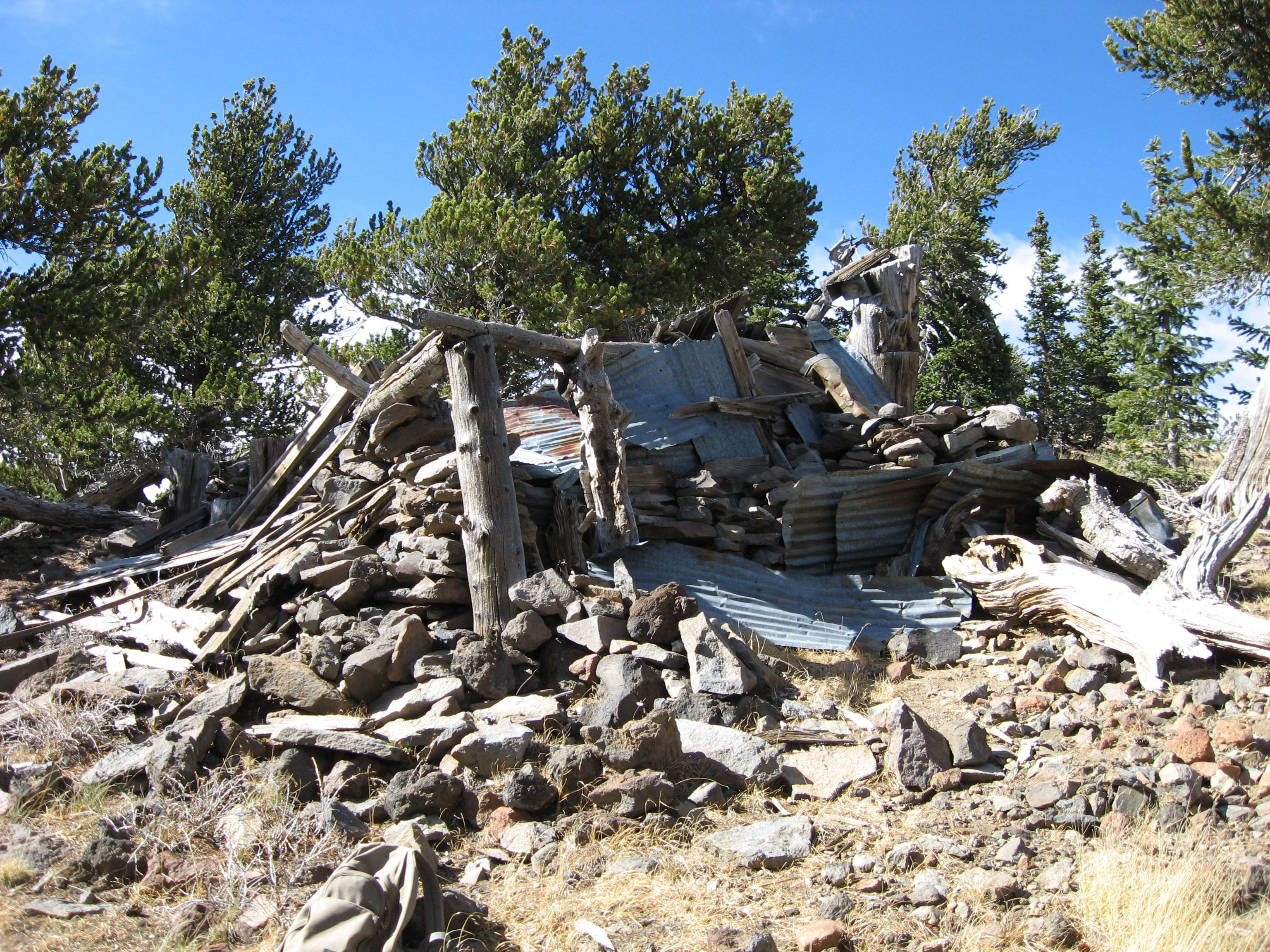 What remains of the collapsed cabin which was built on the southwest slope near the summit of Doyle Peak in the San Francisco Peaks of Coconino National Forest, Arizona. Taken October 20, 2007.